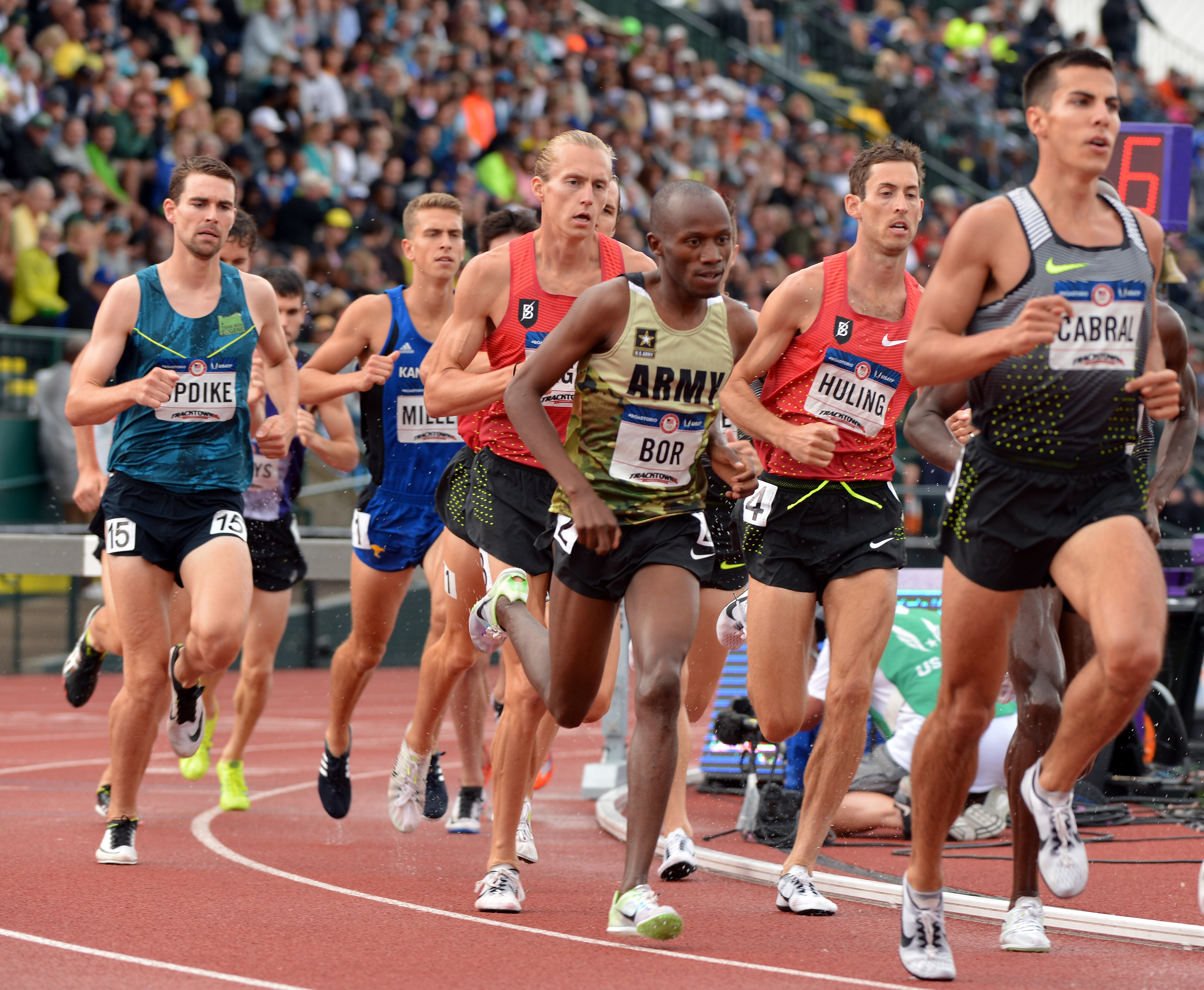 Sgt. Hillary Bor earns a berth in the Rio Olympic Games with a runner-up finish to Evan Jager in the men's 3,000-meter steeplechase with a time of 8 minutes, 24.10 seconds on July 8 at the 2016 U.S. Olympic Track and Field Team Trials at Hayward Field in Eugene, Oregon. U.S. Army photo by Tim Hipps, IMCOM Public Affairs